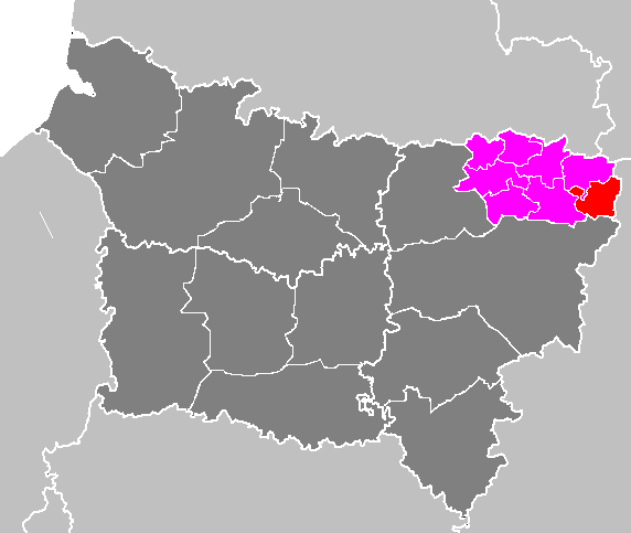 Maps of arrondissements and cantons of France: Arrondissement de Vervins - Canton d Aubenton.PNG